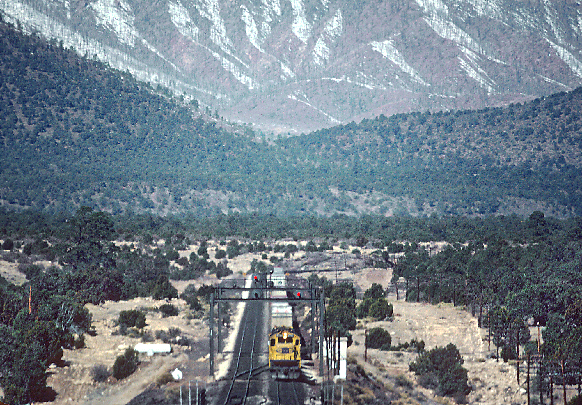 Shot in Darling, AZ. Note when the fireman saw Roger he threw on some more coal to give off good smoke.